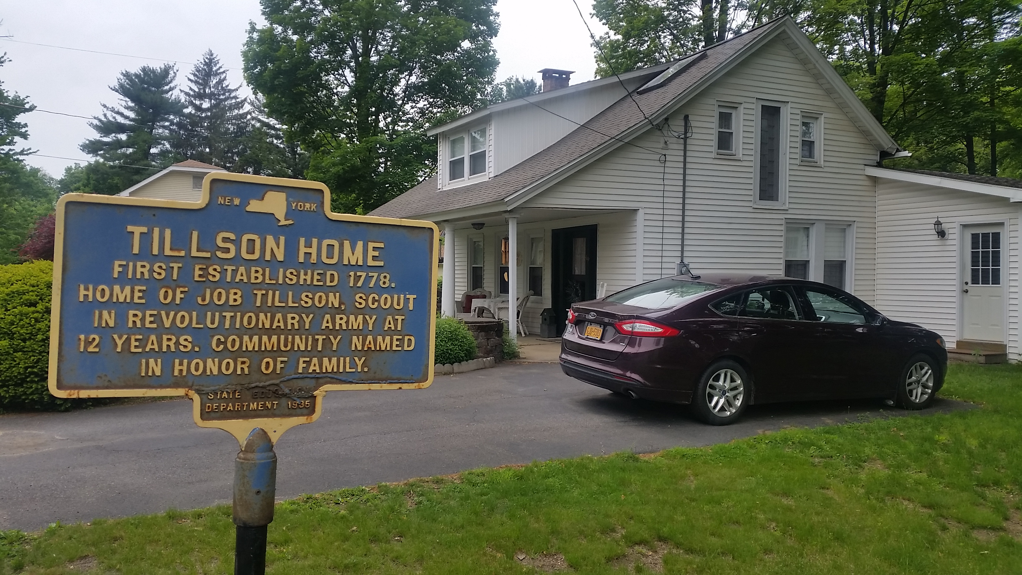 NY State historical marker for the Tillson Home